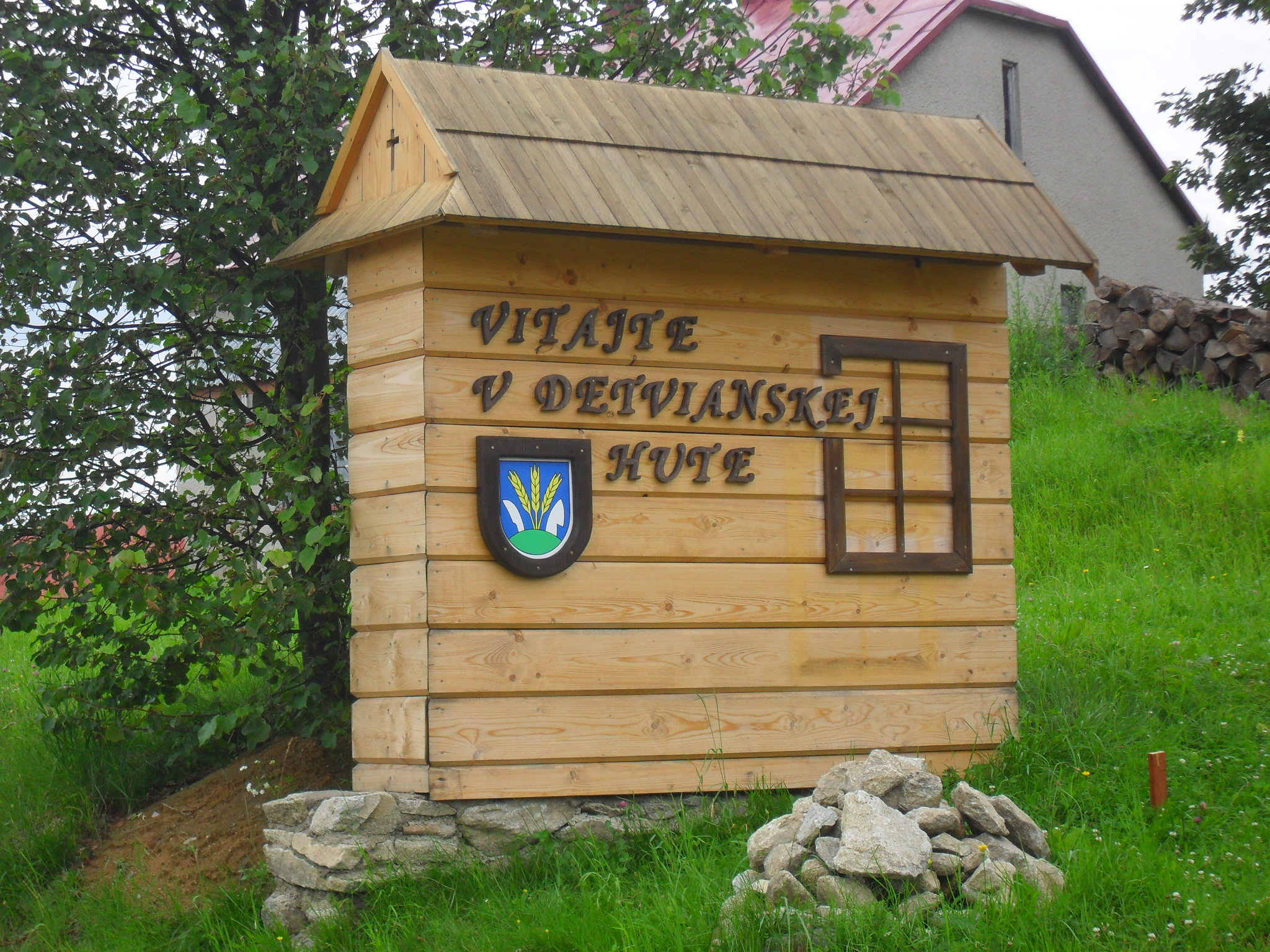 Detvianska Huta - welcome sign